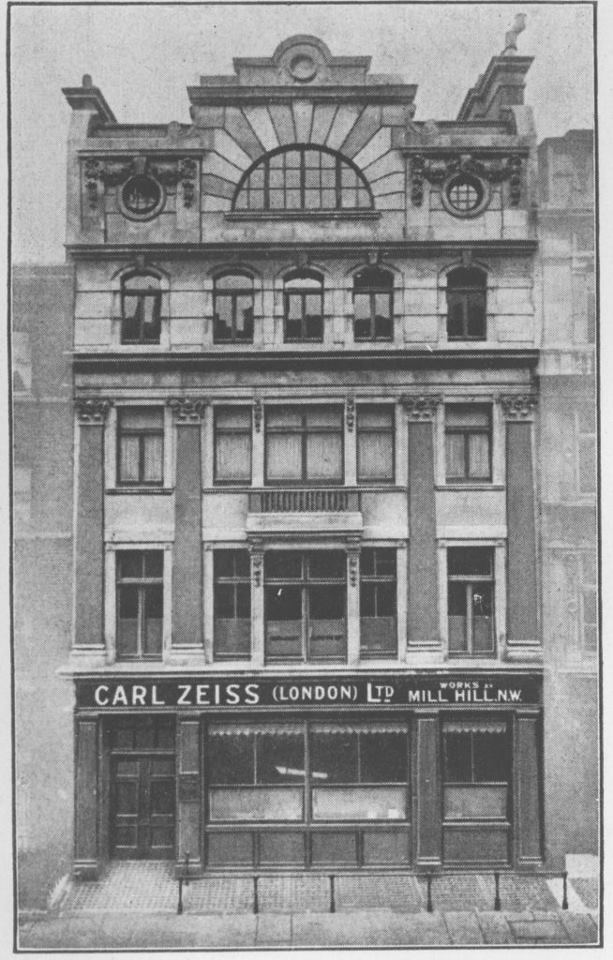 1894 Carl Zeiss subsidiary in London Images donated as part of a GLAM collaboration with Carl Zeiss Microscopy - please contact Andy Mabbett for details.